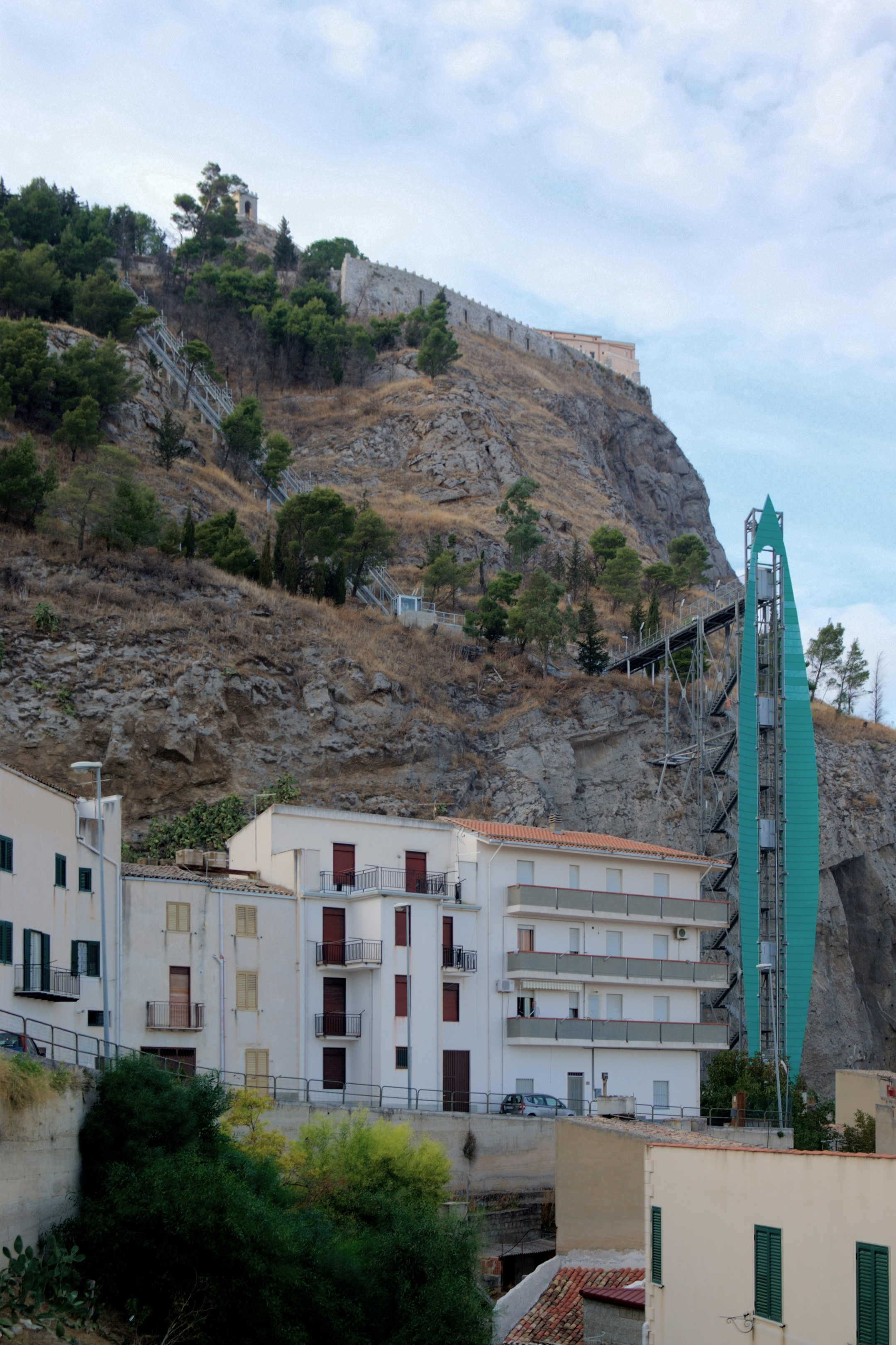 Italy, Sicily, Sutera, lift to the Monte San Paolino